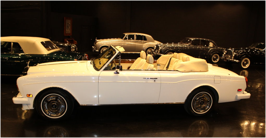 The driver's side view of the Rolls-Royce Corniche "S."